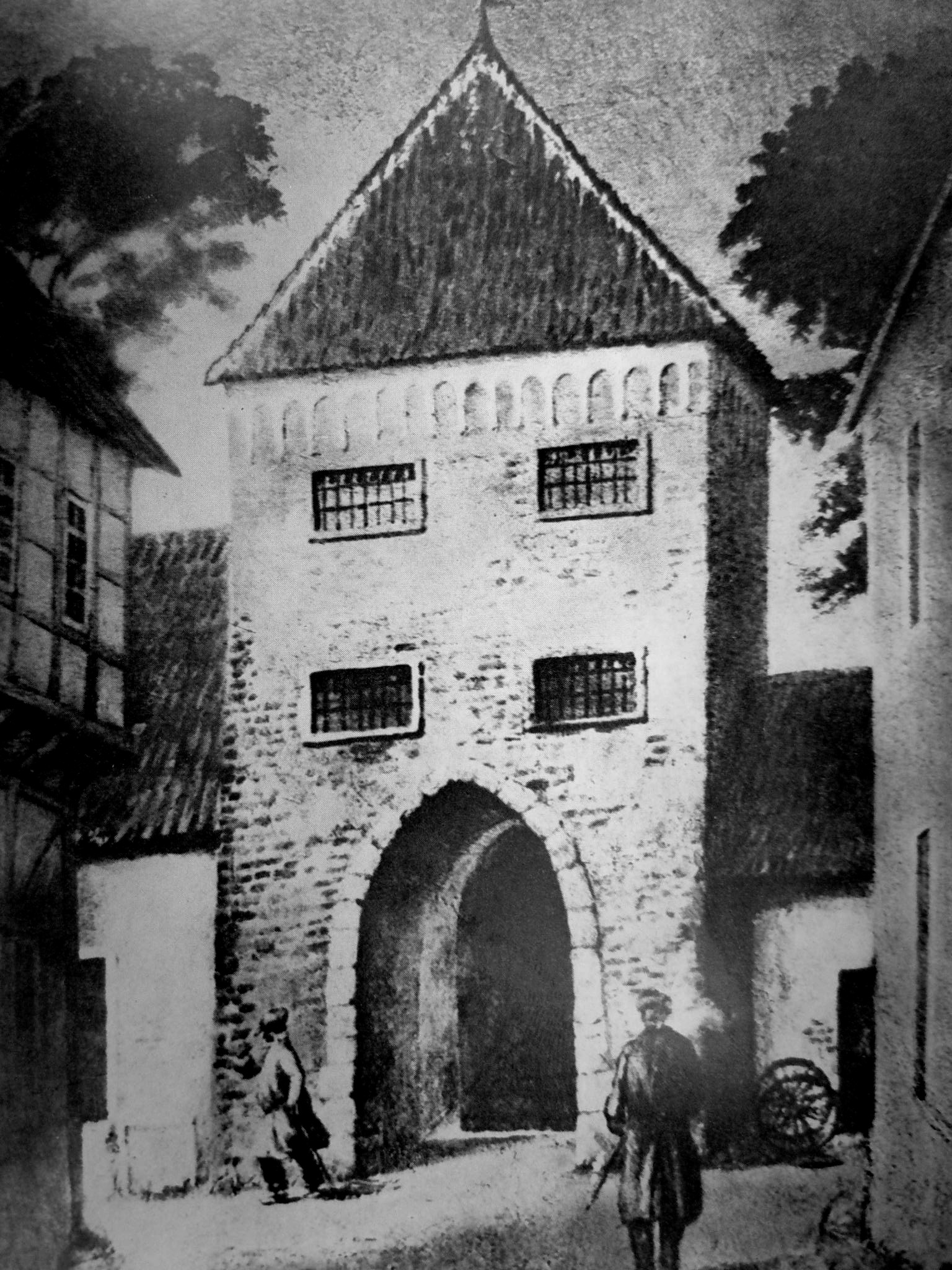 Thietor, gate in the townwall of Rheine, Germany